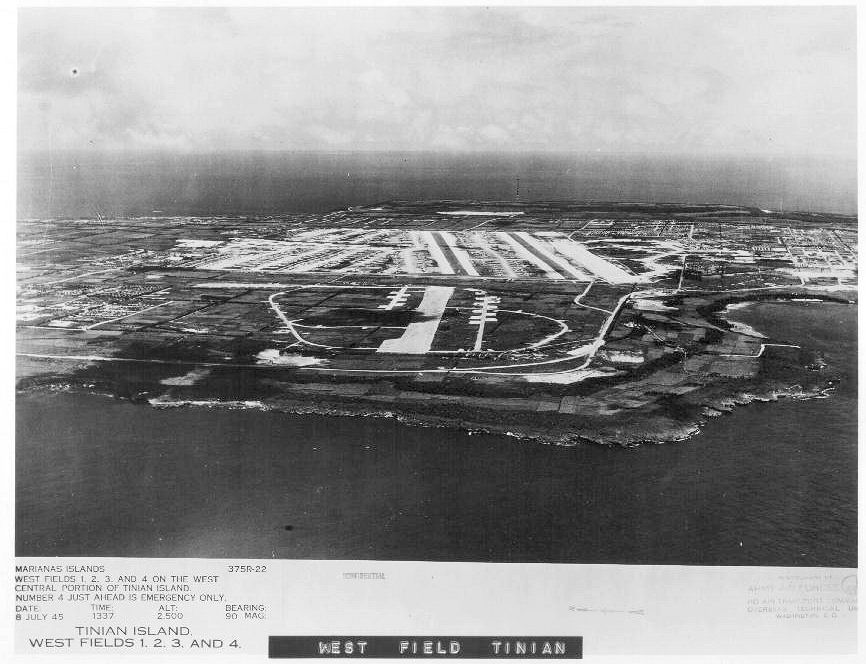 Aerial photo of West Field, Tinian, Mariana Islands, 8 Jul 1945